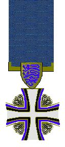 Order of Terramariana Estland Estonia